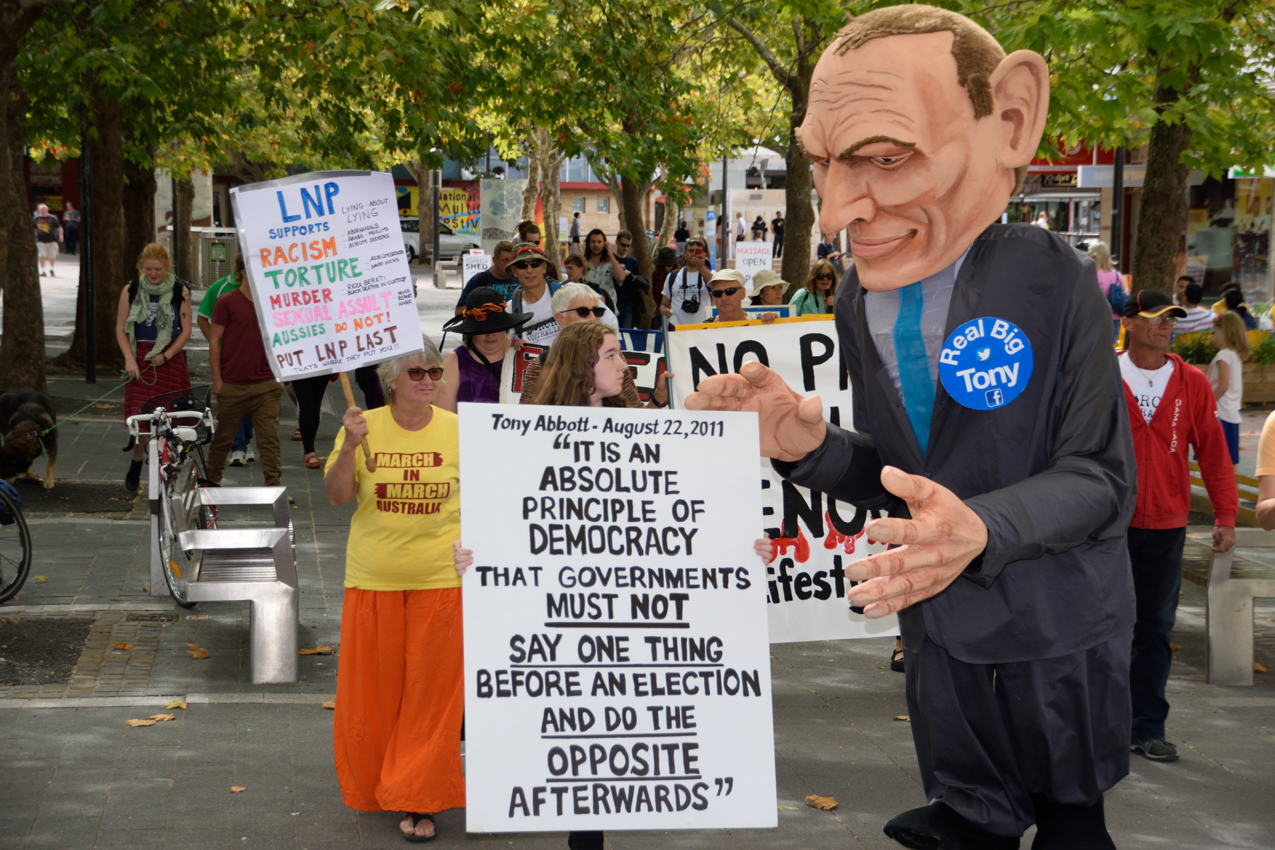 A march on democracy and how it is being ran.